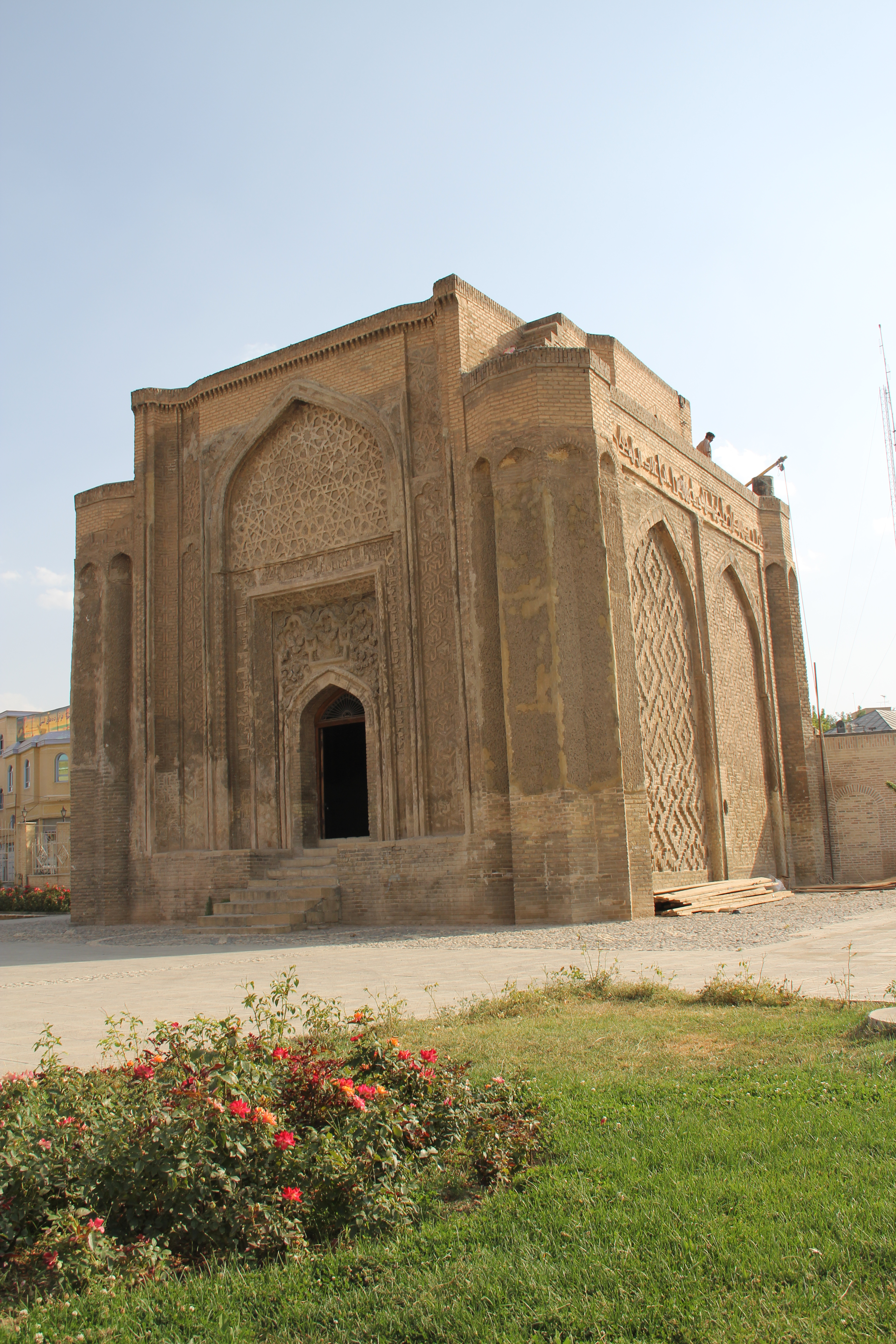 Alaviyan dome Hamedan